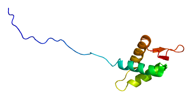 Structure of the CUL3 protein. Based on PyMOL rendering of PDB 1iuy.